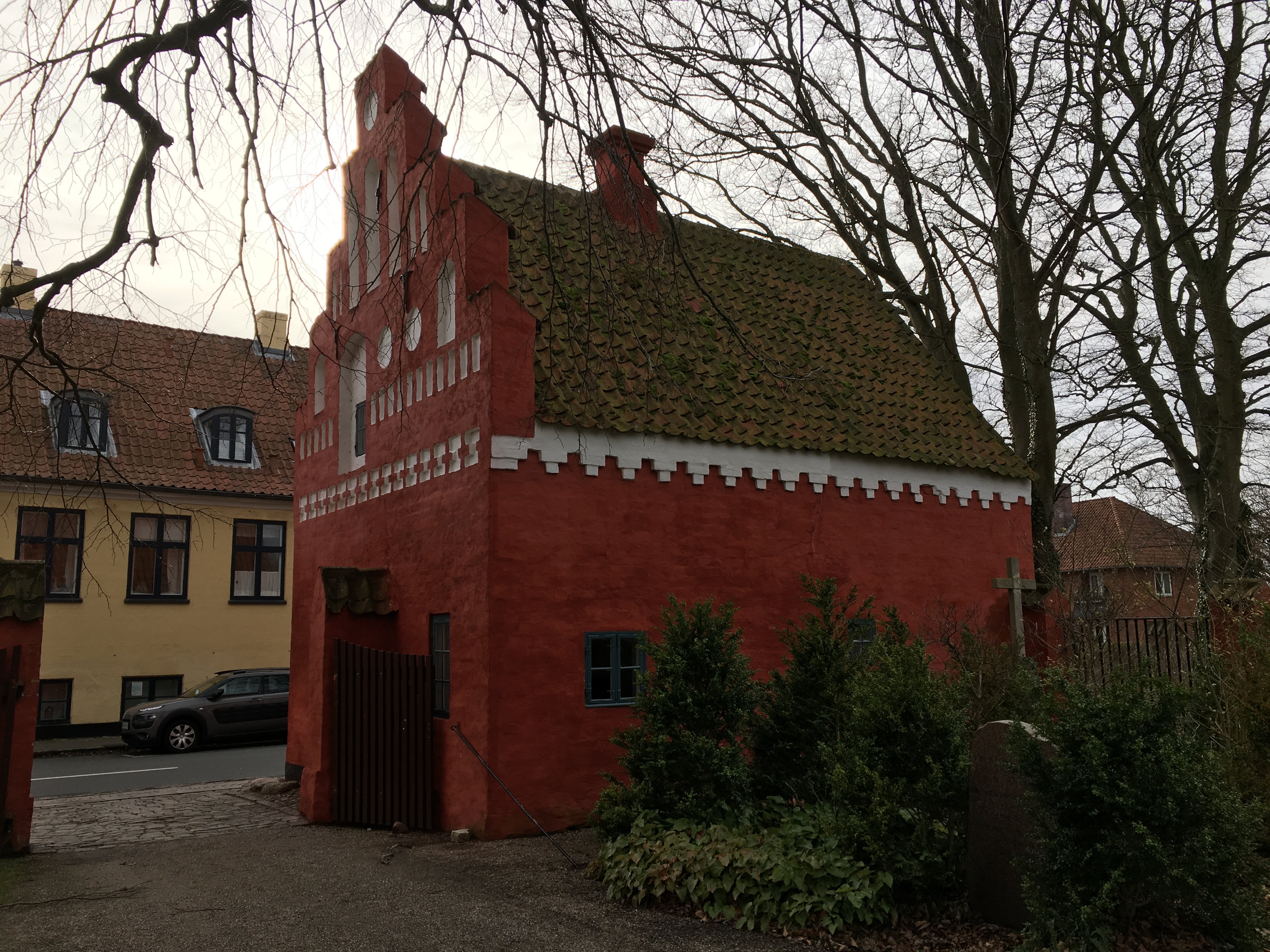 Latinskolen i Skælskør, bagsiden set fra kirken